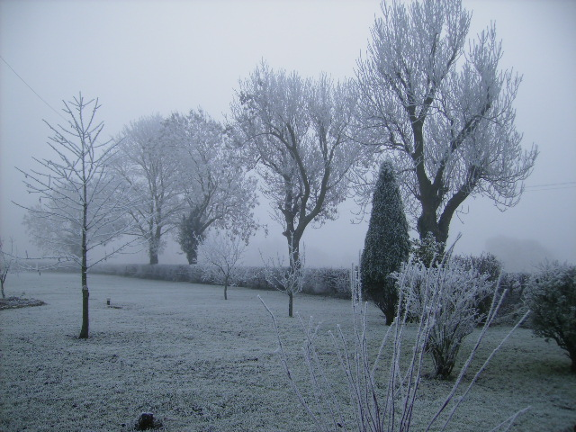 Extremely heavy hoar frost near Pickering